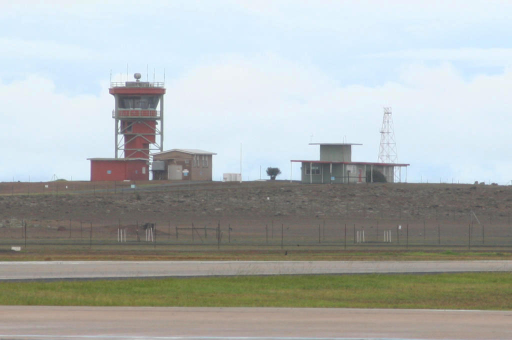 Control tower and offices at Avalon Airport